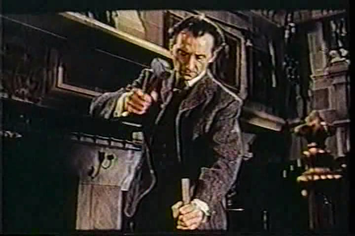 Screenshot of Peter Cushing from the trailer for the film The Brides Of Dracula